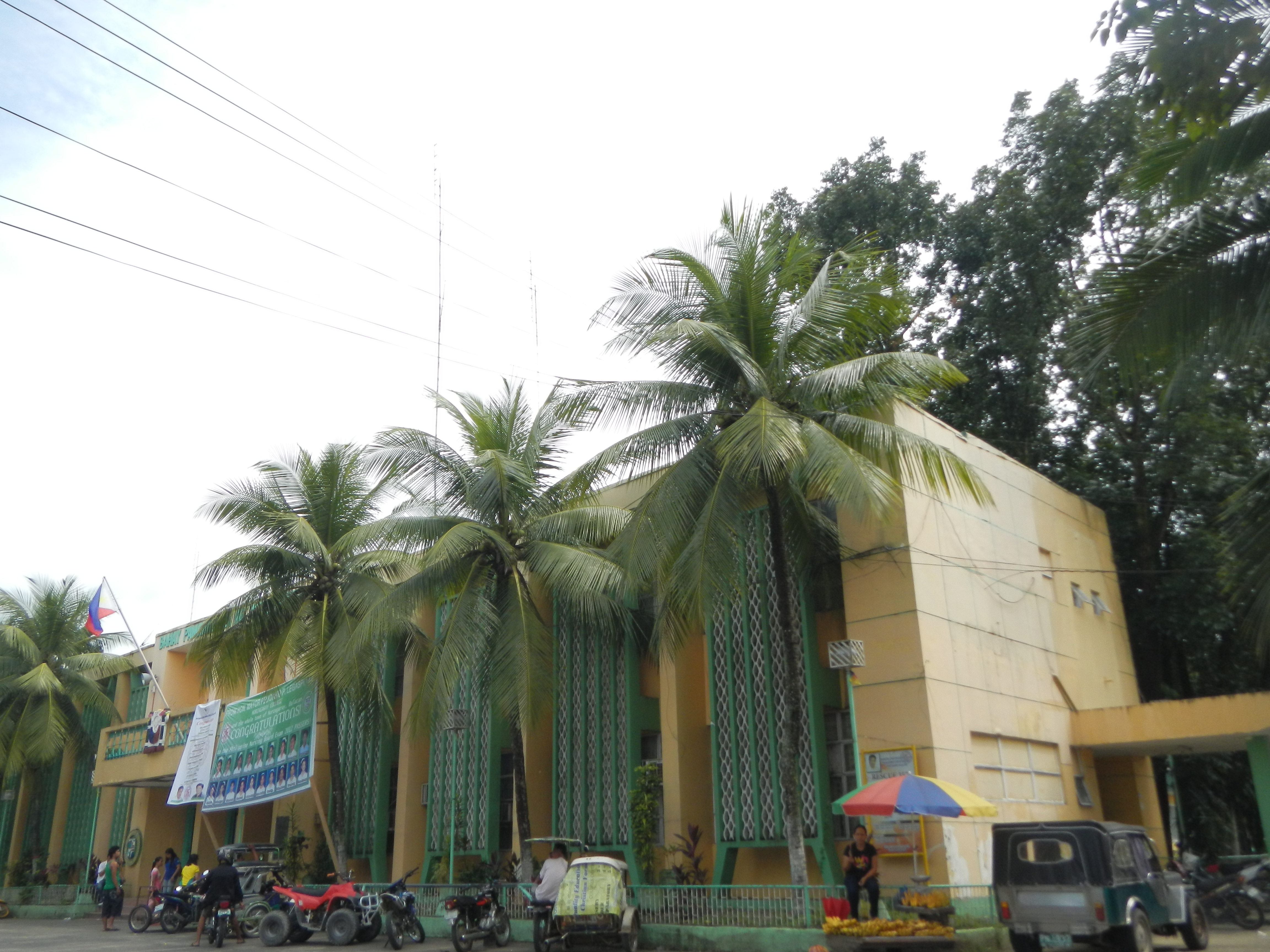 Norzagaray, Bulacan[1] Town hall